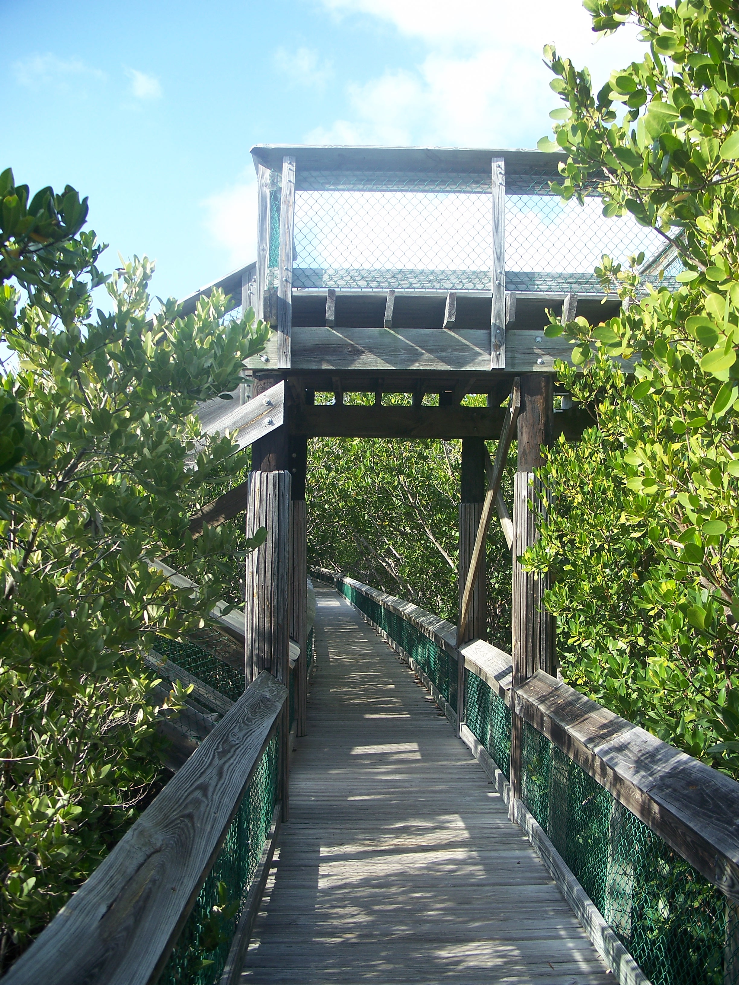 Long Key State Park: Observation tower